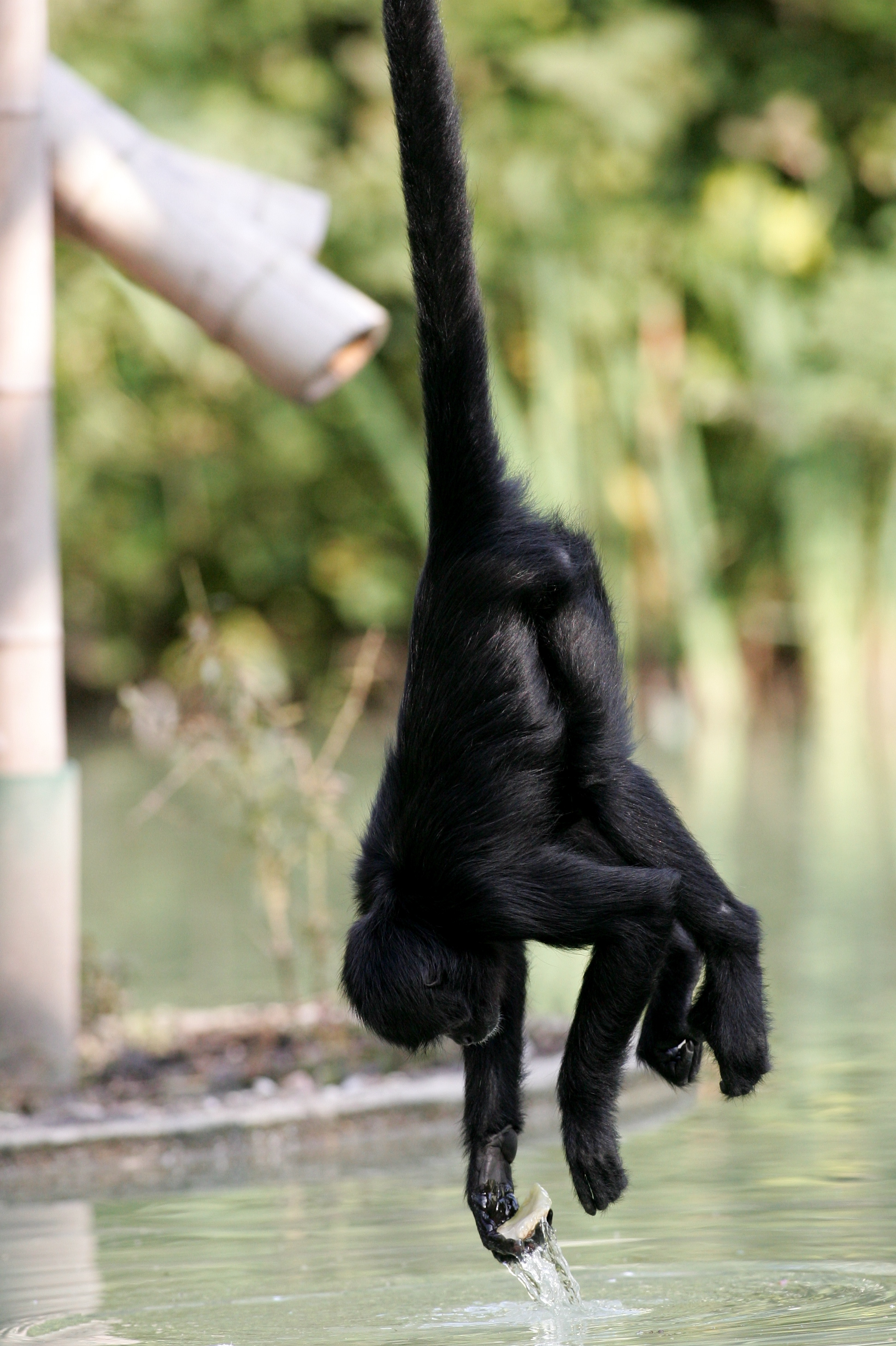 Ateles fusciceps robustus rinsing a piece of coconut